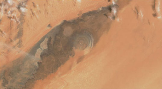 This prominent circular feature in the Sahara Desert of Mauritania has attracted attention since the earliest space missions because it forms a conspicuous bull’s-eye in the otherwise rather featureless expanse of the Gres de Chinguetti Plateau in central Mauritania, northwest Africa. Described by some as looking like an outsized ammonite in the desert, the structure [which has a diameter of almost 50 kilometers (30 miles)] has become a landmark for space shuttle crews. Initially interpreted as a meteorite impact structure because of its high degree of circularity, it is now thought to be merely a symmetrical uplift (circular anticline) that has been laid bare by erosion. Paleozoic quartzites form the resistant beds outlining the structure. The reason for the high degree of circularity is not clear. This true-color scene was acquired by the Moderate-resolution Imaging Spectroradiometer (MODIS), flying aboard NASA’s Terra satellite, on March 11, 2002.